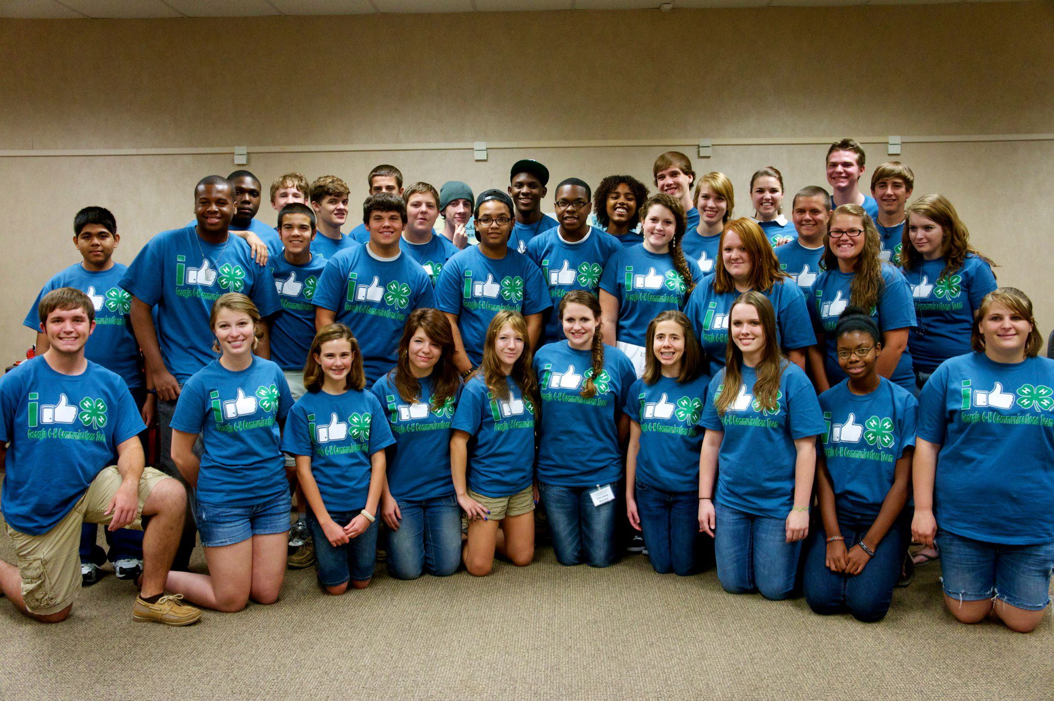 Pictured are members of the 2011-2012 Georgia 4-H Communications Team.